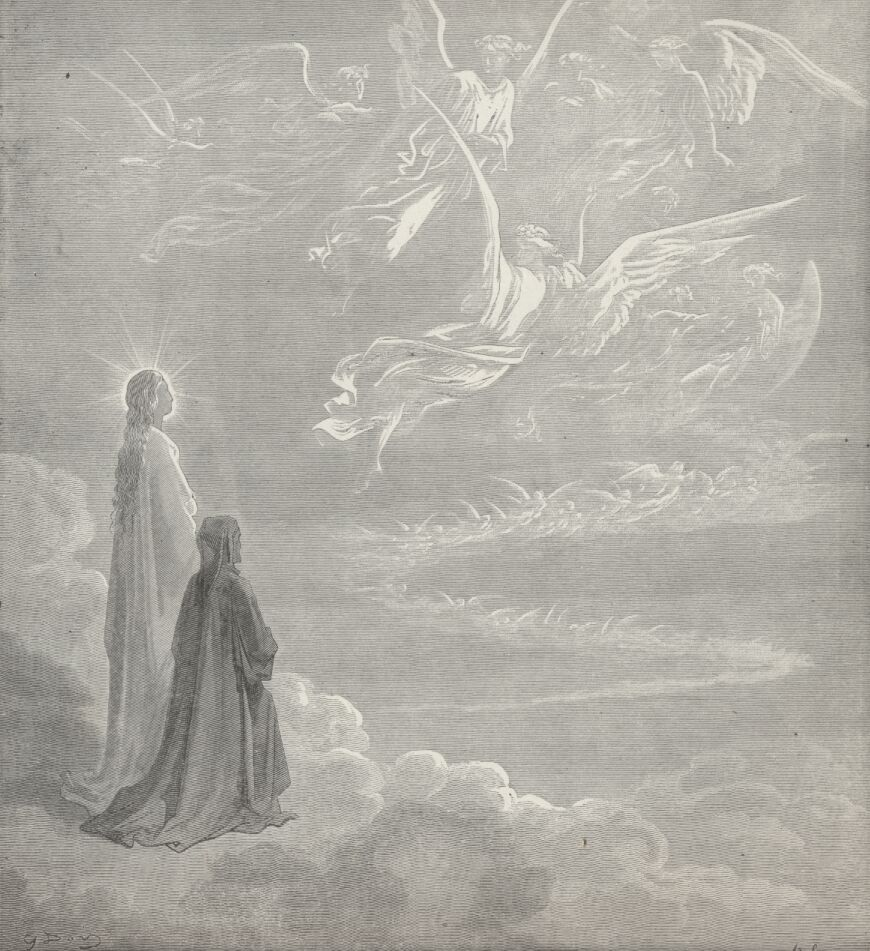 Paradiso Illustration by Gustave Doré.